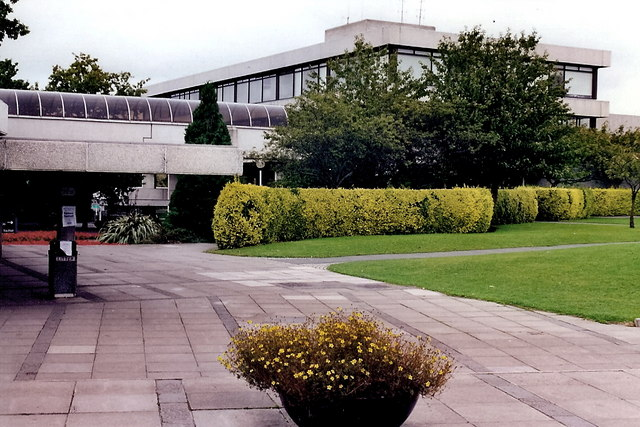 University College Dublin Administration Building